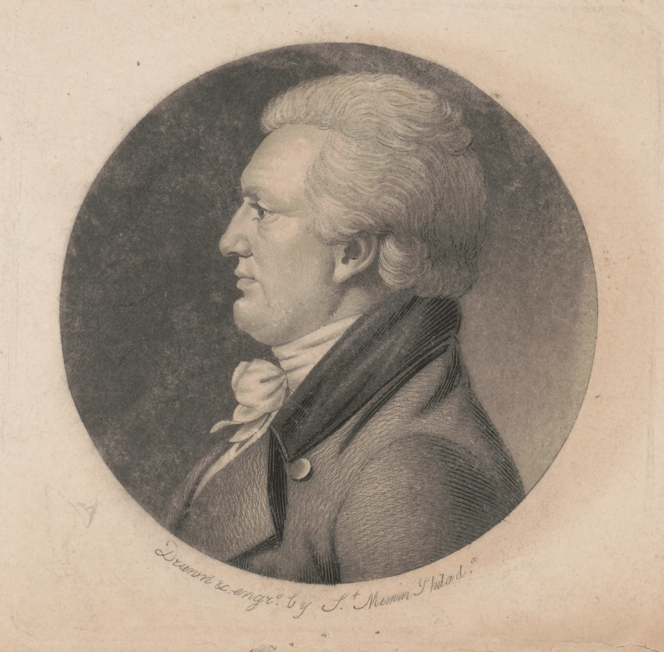 Title: David Meade Randolph, head-and-shoulders portrait, left profile Abstract/medium: 1 print : engraving.